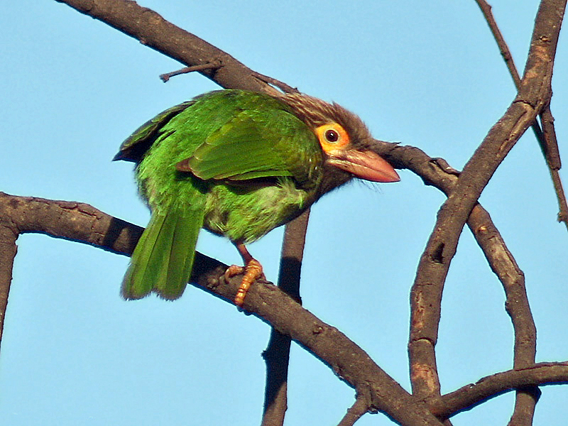 Brown-headed Barbet (Megalaima zeylanica) at Bharatpur, Rajasthan, India.